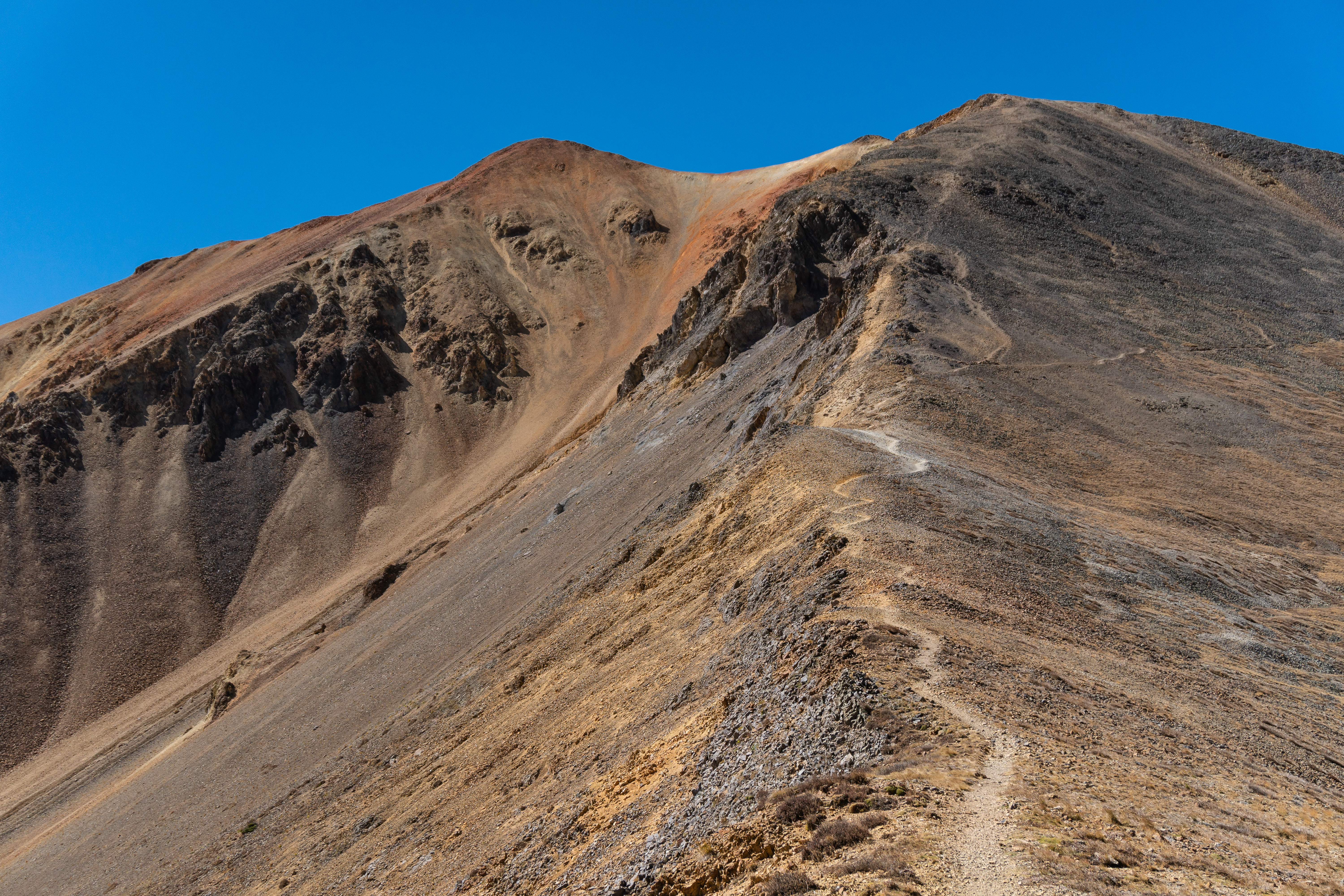 The hiking trail to the top of Redcloud Peak in the San Juan Mountains of Colorado in September 2018.